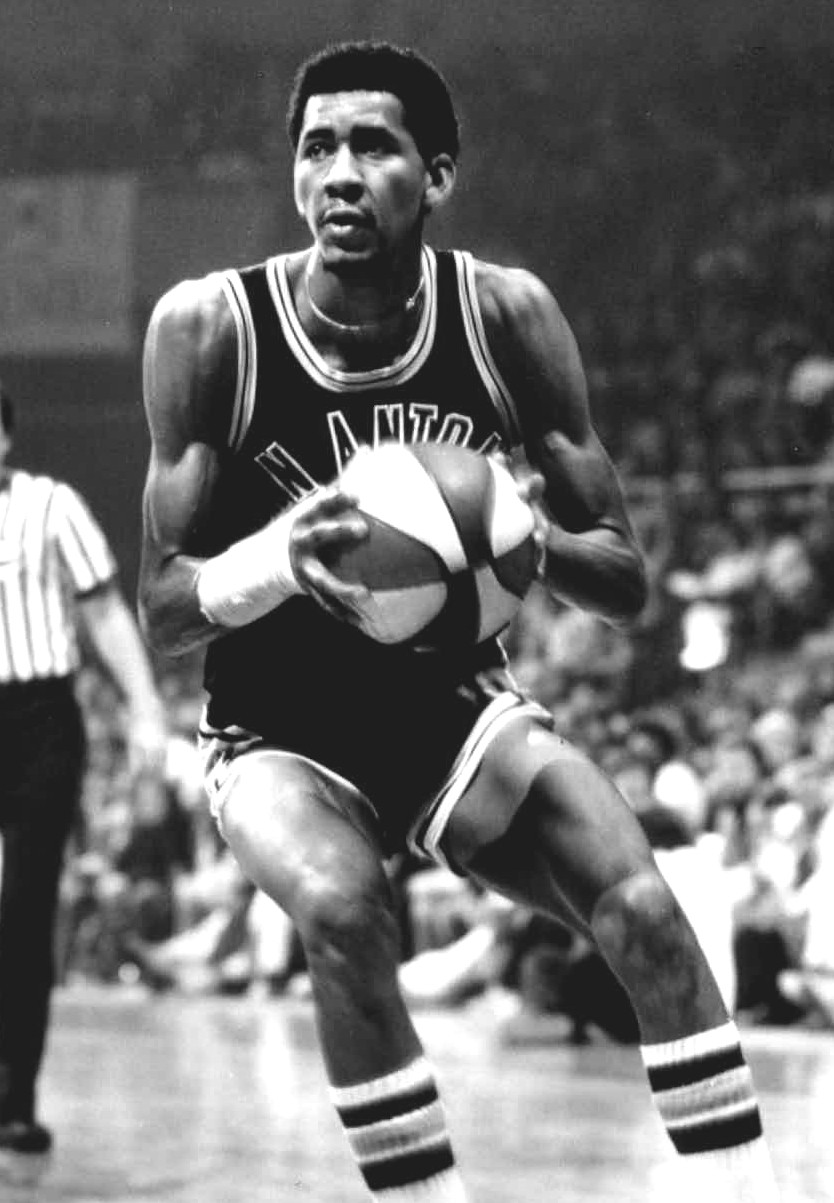 Professional basketball player George Gervin